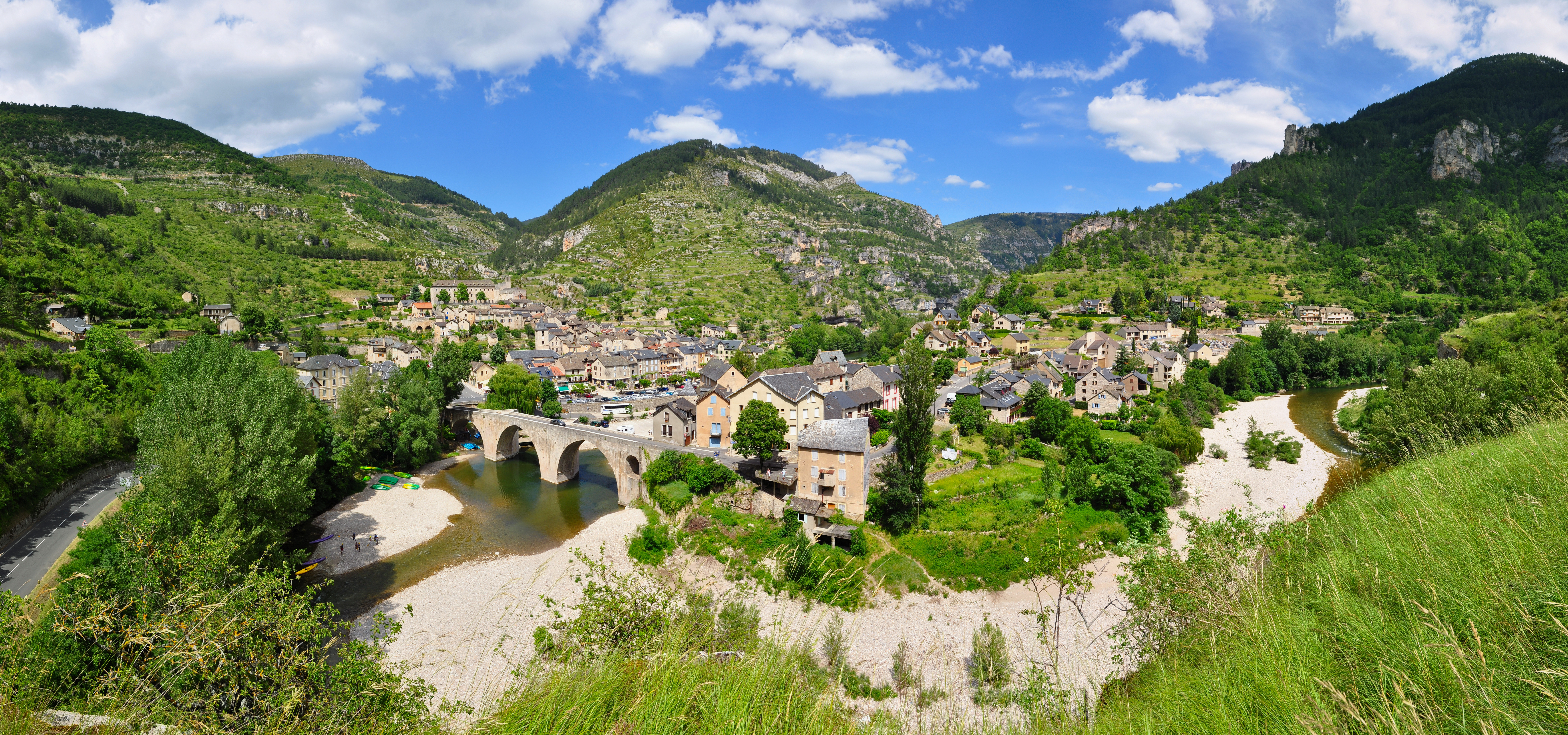 The little village of Sainte-Enimie (Lozère, France) at the entrance of the Gorges du Tarn, seen from a picnic area on D986 road.